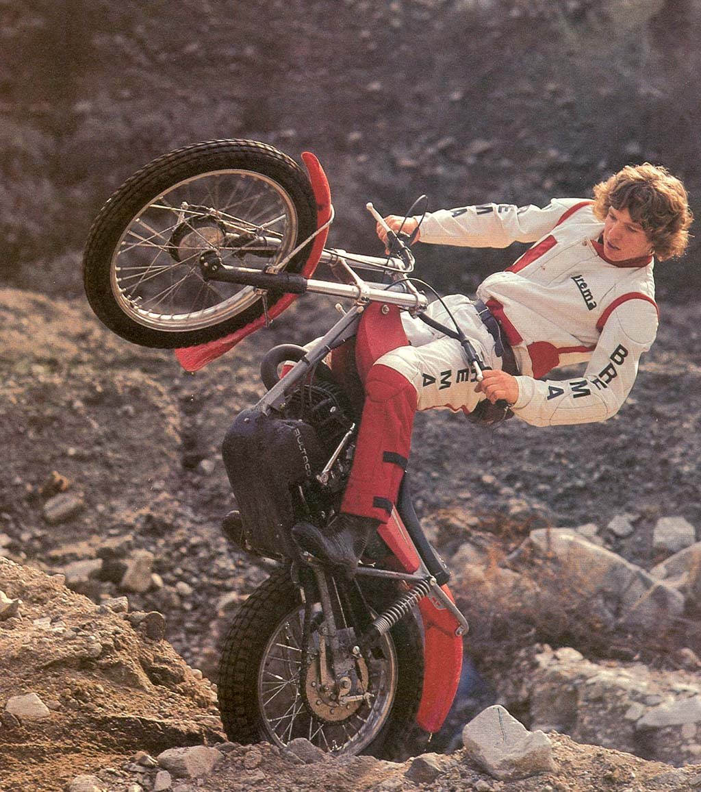 Bernie Schreiber on a Bultaco Sherpa T mod 199 at the end of 1977